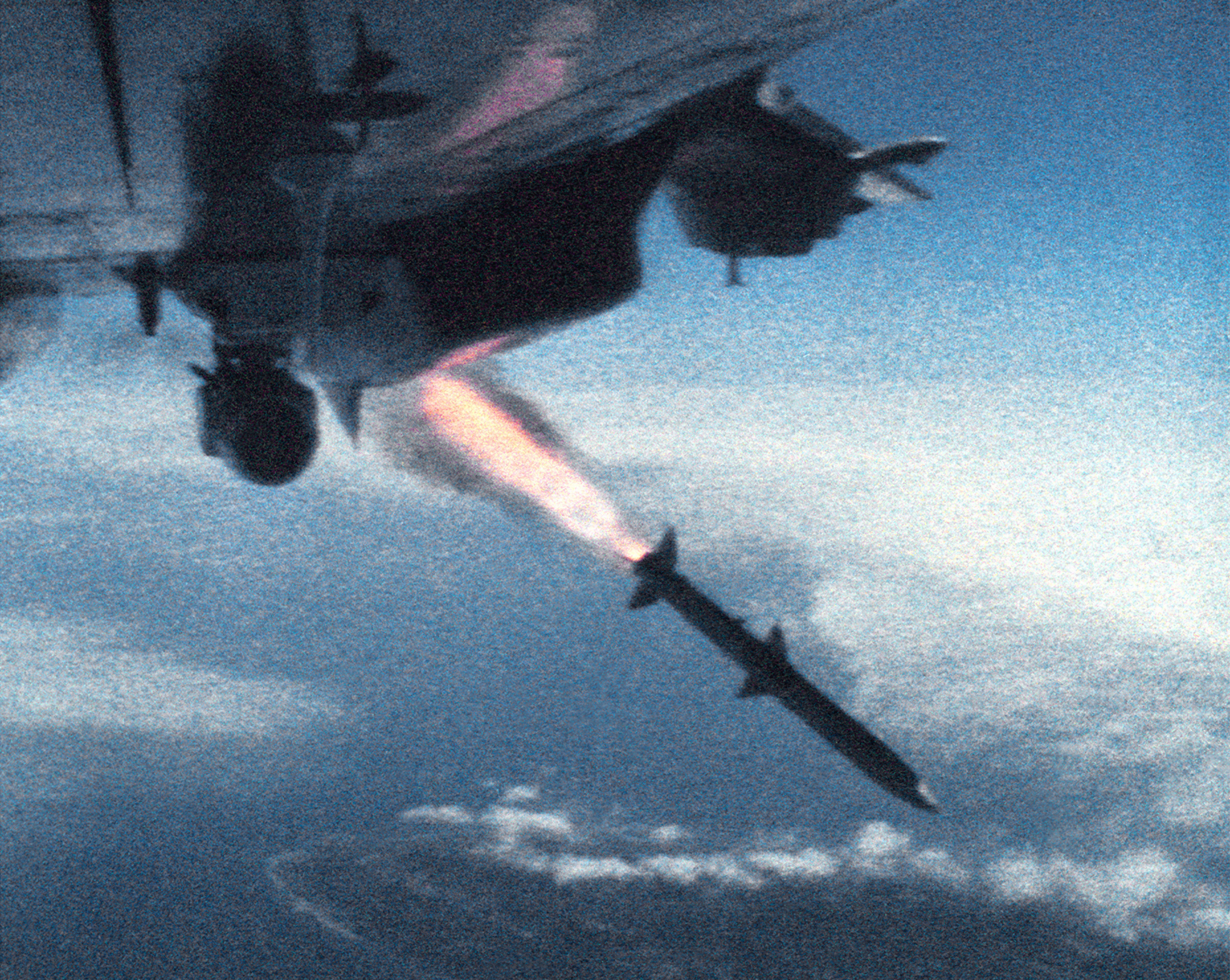 An advanced medium range air-to-air missile (AMRAAM) after its launch from an F-14A Tomcat aircraft, near the Pacific Missile Test Center (PMTC), Point Mugu, California.